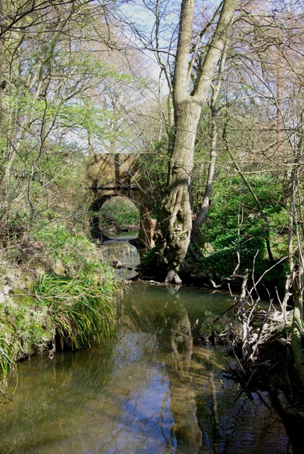 Stream under Halden Lane Stumble Wood is on the left. The viewpoint is a small shoal in the stream.